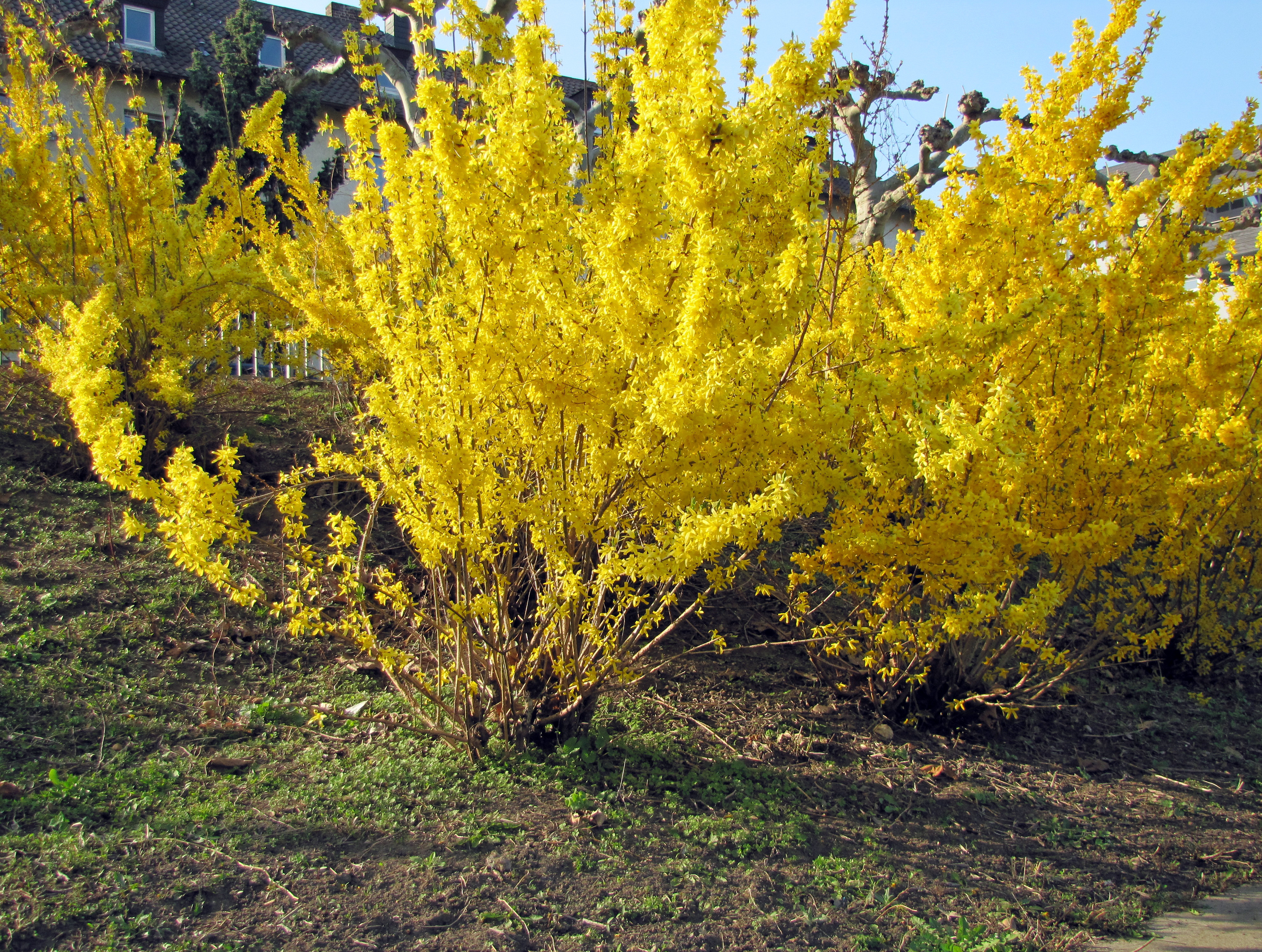 Forsythia